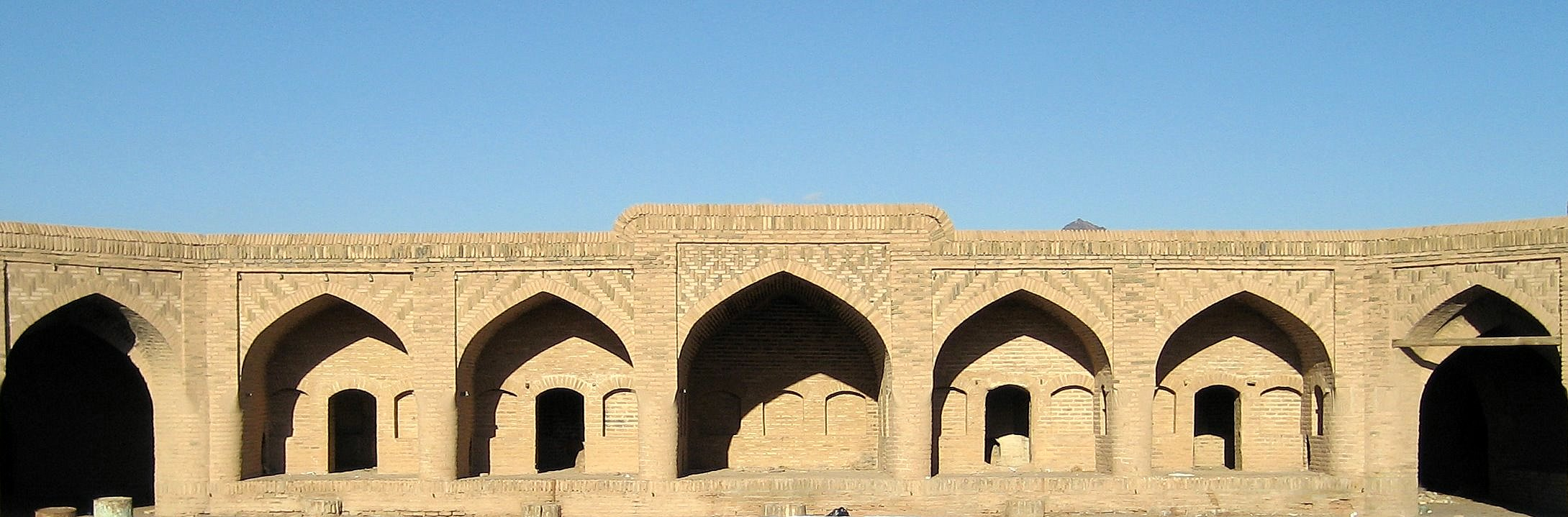 Neyestanak Caravanserai Inner Courtyard, Jan. 1st, 2007